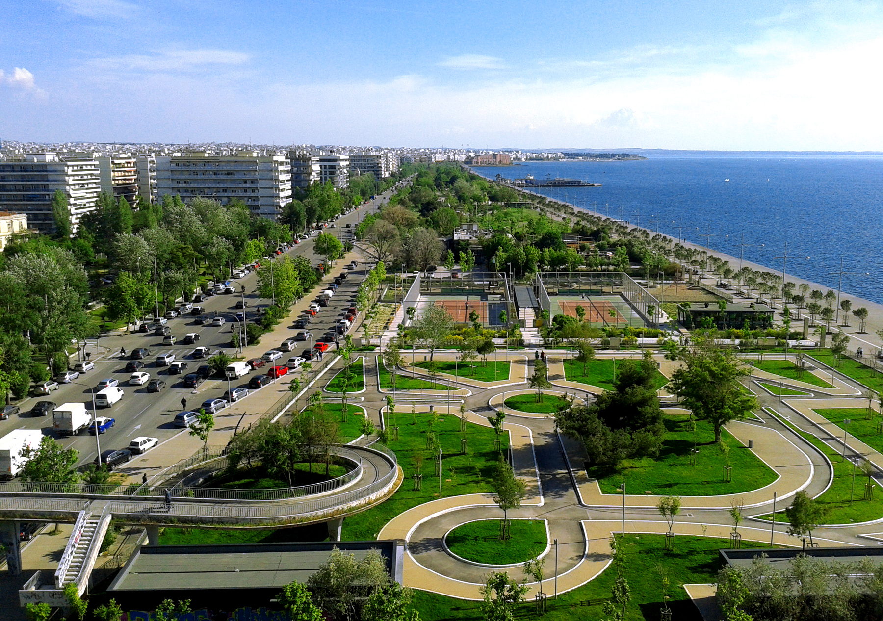 Thessaloniki waterfront - Greece